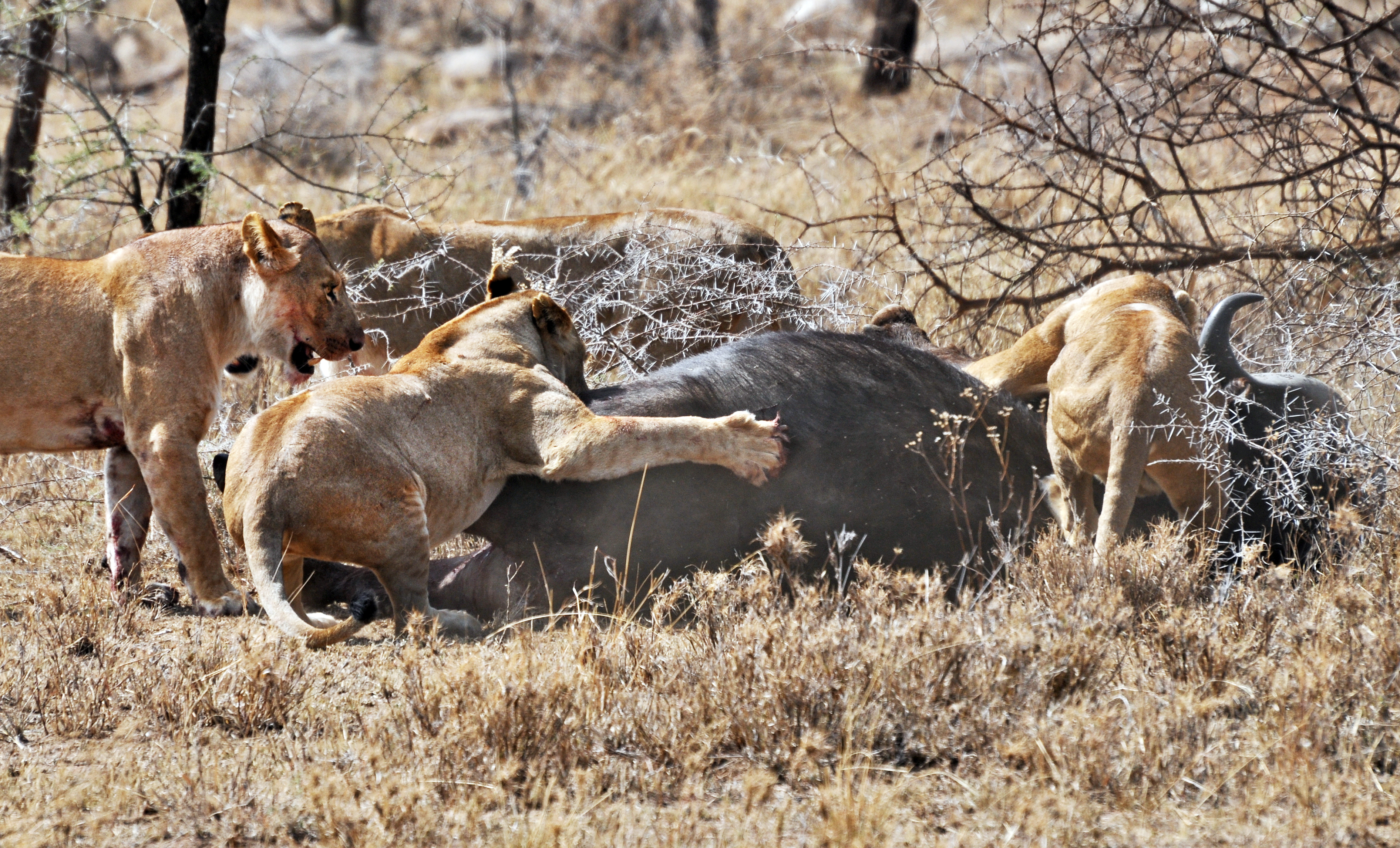 Four Lionesses take down a bull cape buffalo in the central Serengeti